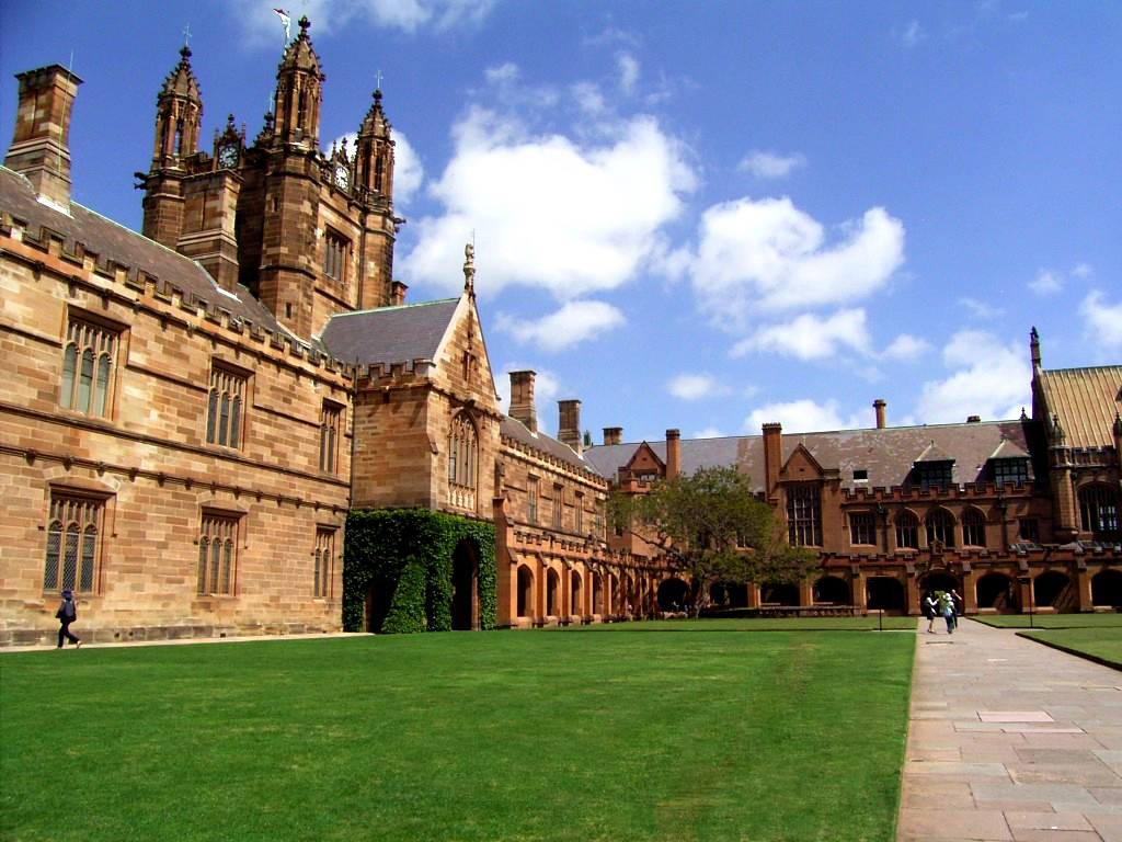 Main Quadrangle of the University of Sydney. Own photo.